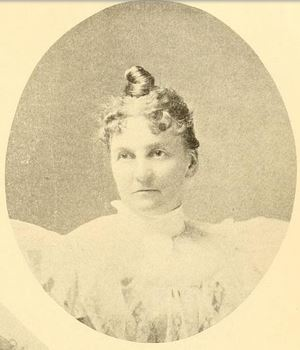 Isabel Cameron